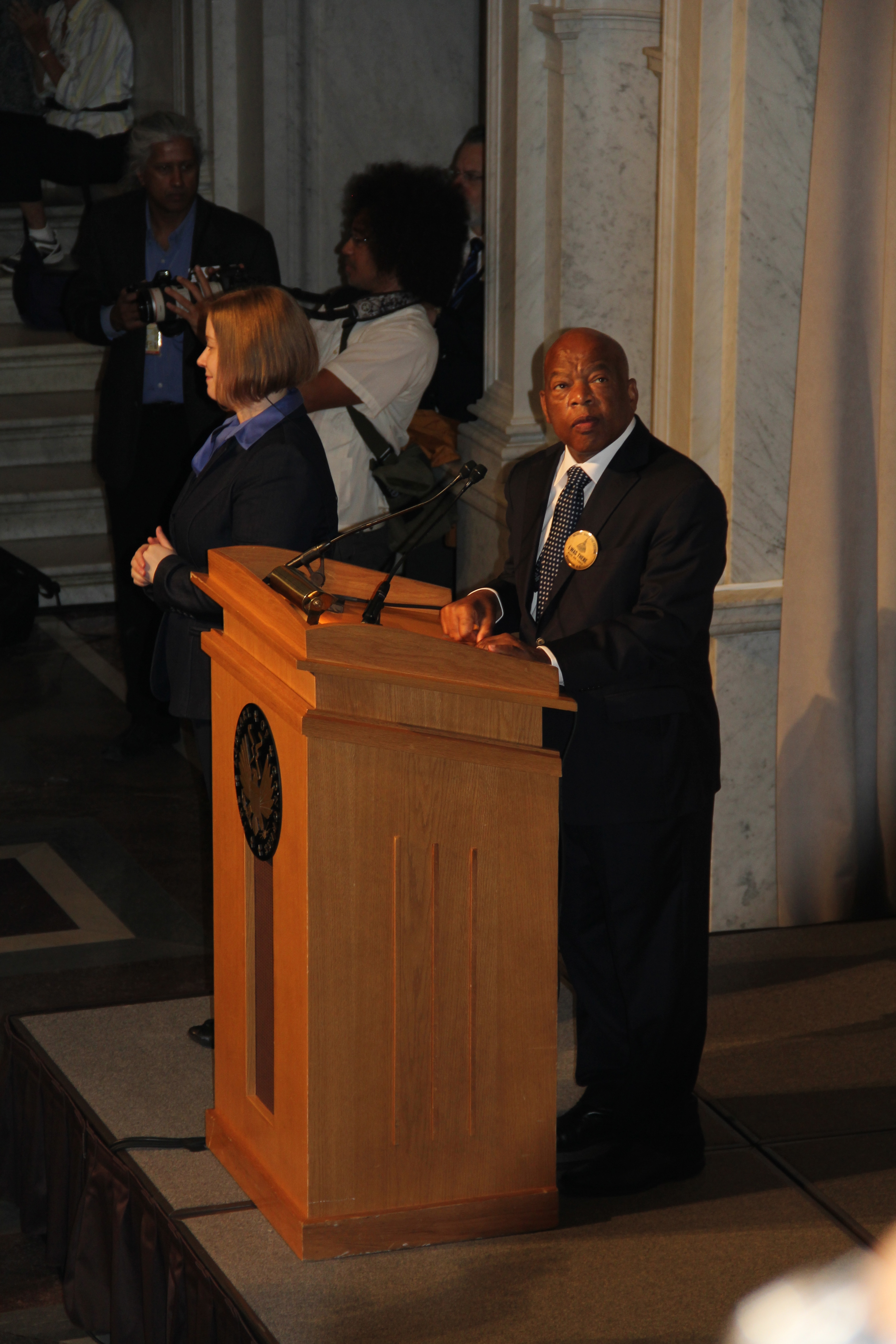 Photo taken at the 50th Anniversary of the Civil Rights March on Washington for Jobs and Freedom